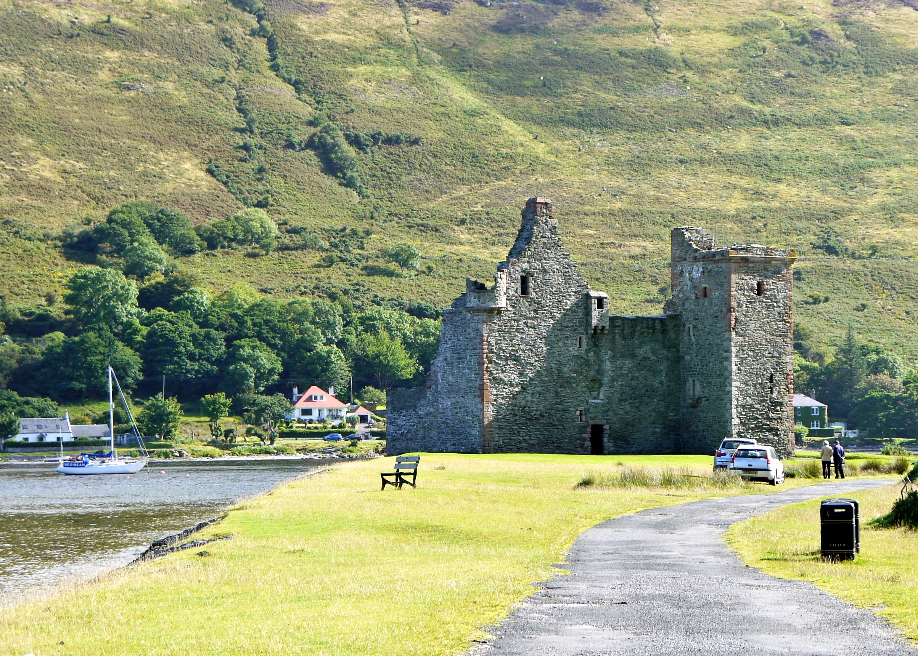 ARRAN, LOCHRANZA CASTLE Wikidata has entry Q2340545 with data related to this building.